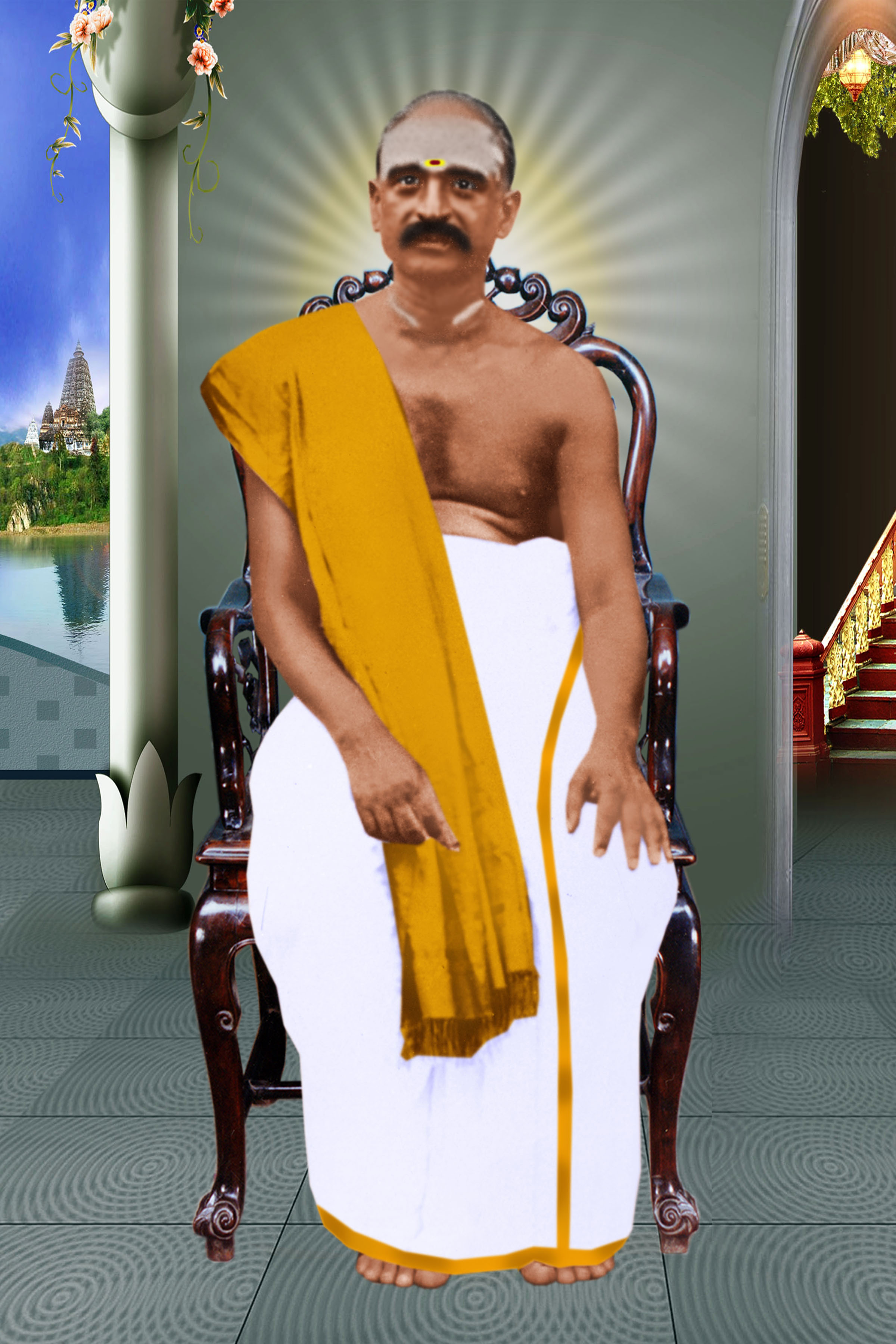 Karnam Venkatachalam is the person who is the head of Thamaraikulam(1874-1934), Madurai District, now Theni District.